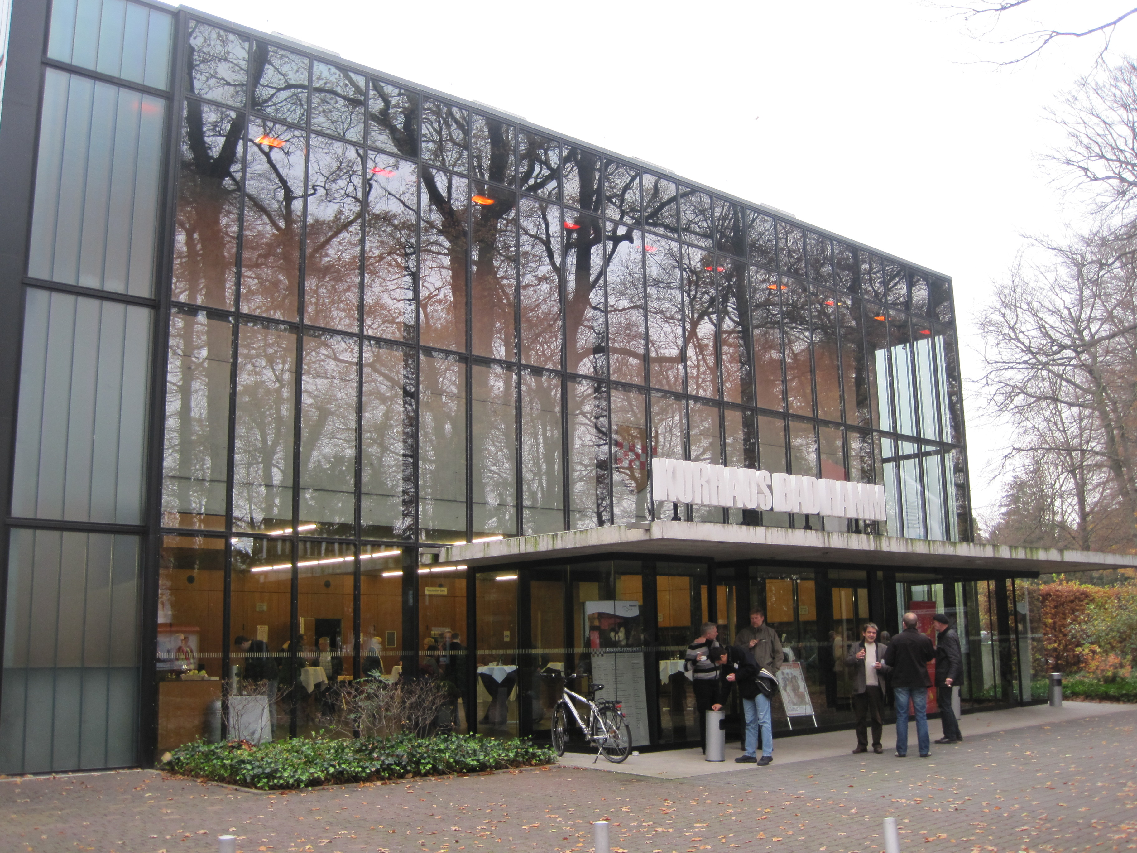 Theater of the Spa Hamm, main entrance. The Audotorium can be altered to fit for different Events, like balls, city councils proceedings and concerts et cetera.